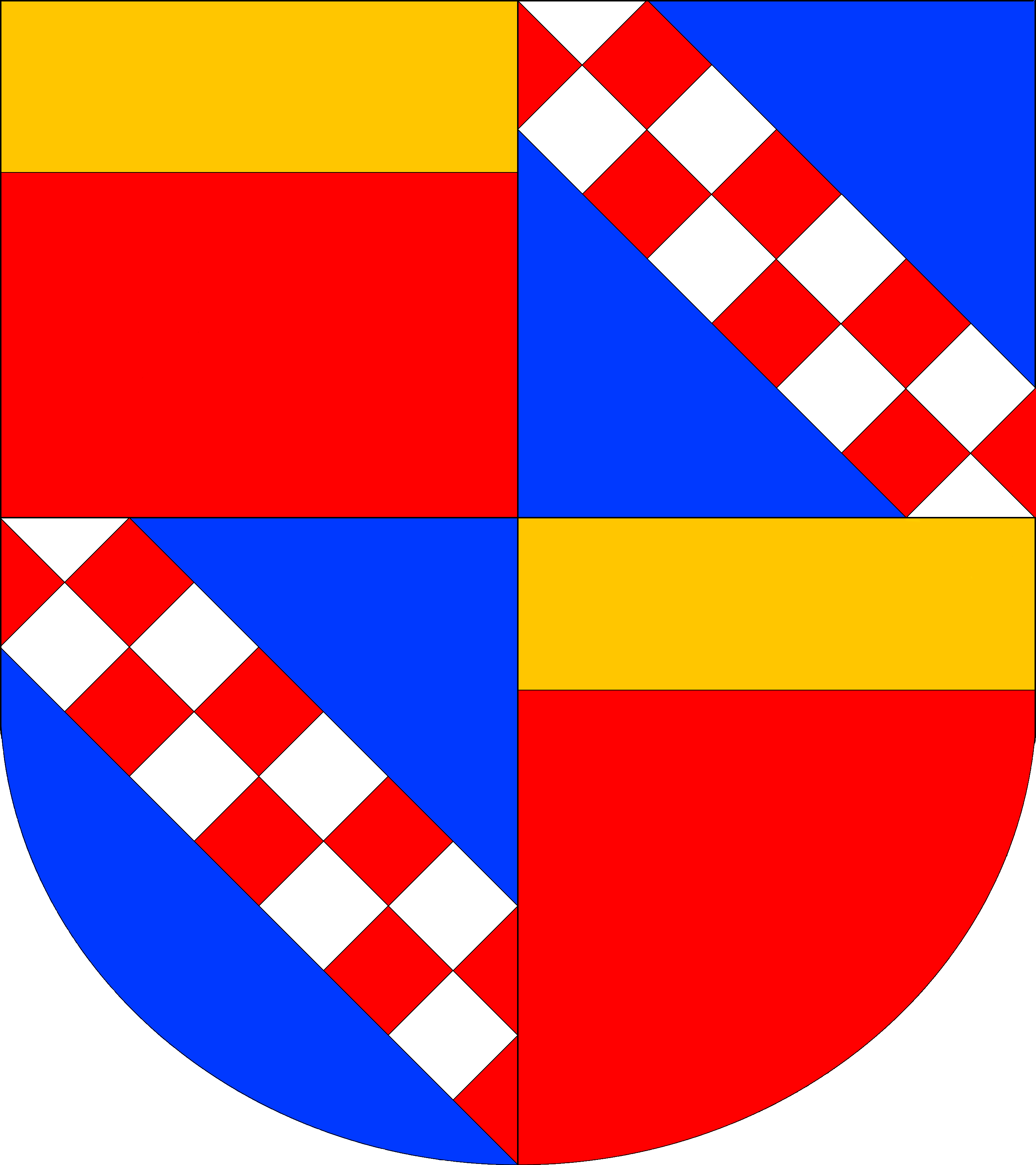 Escudo de Armas de Don Giovanni I de Ventimiglia, I marqués de Irache, conbinación de las armas de la casa de Ventimiglia y las de la casa de Altavilla.